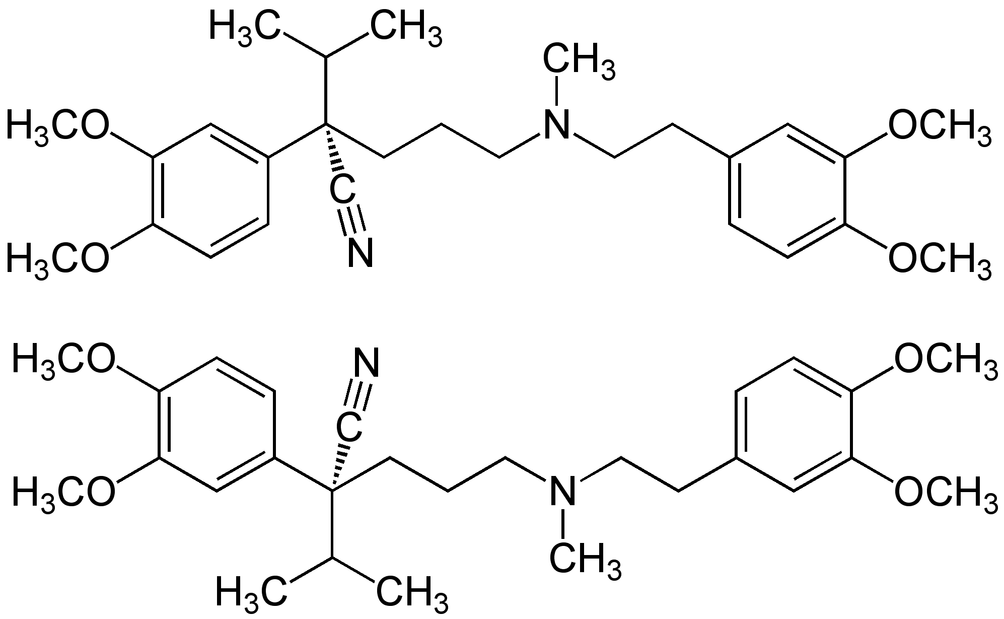 (±)-Verapamil_Structural_Formulae